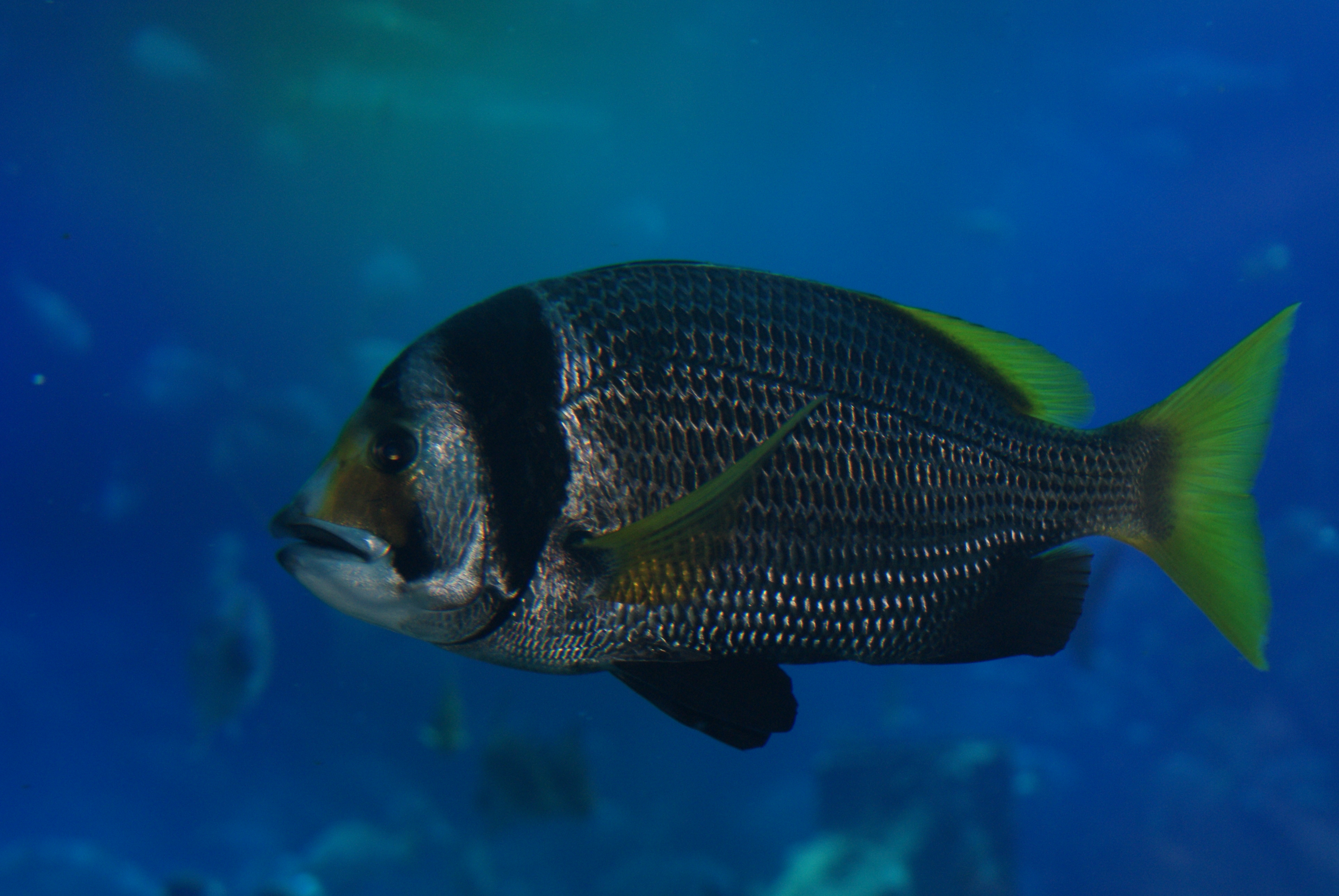 Acanthopagrus bifasciatuse